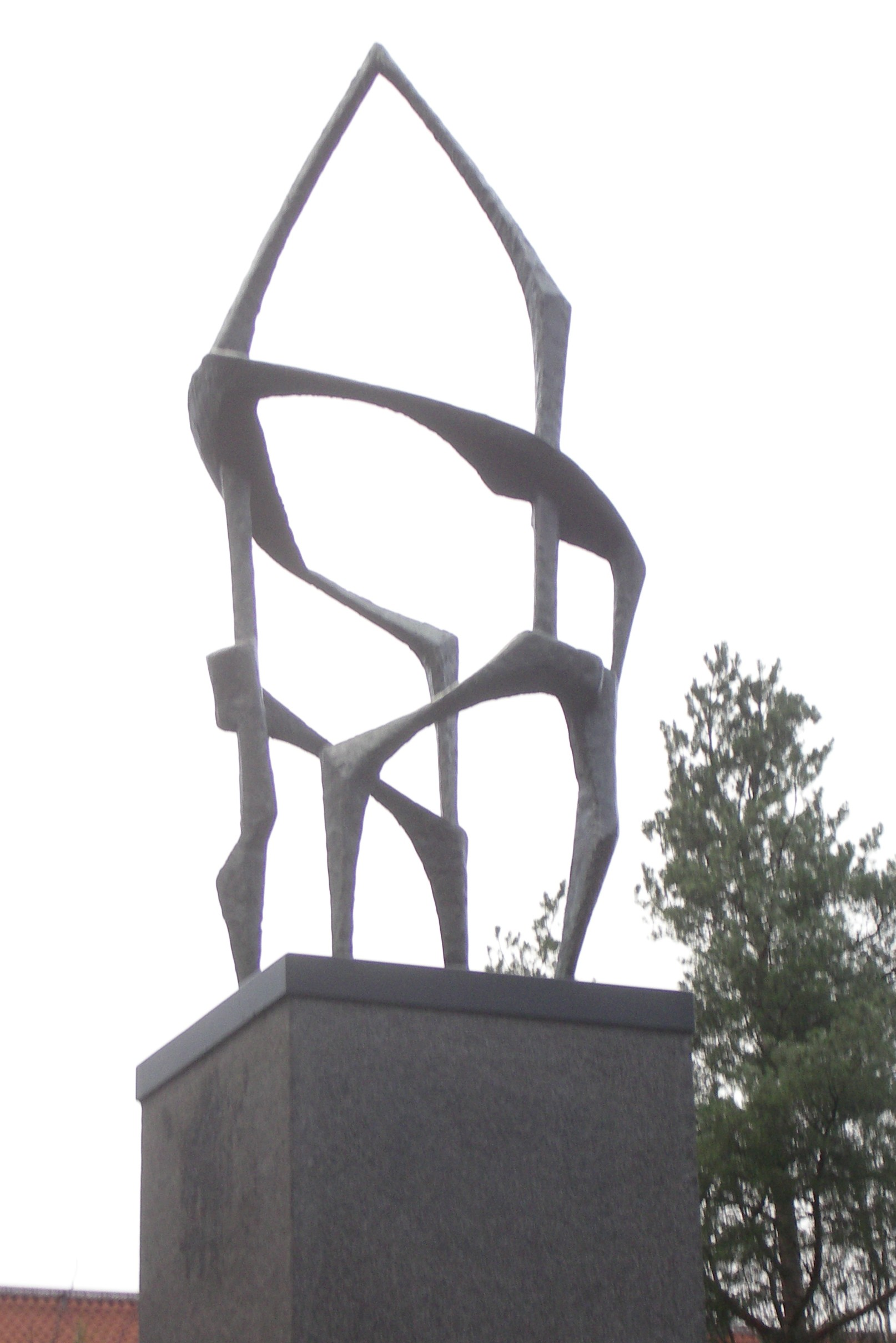 Arne Jones Katedral